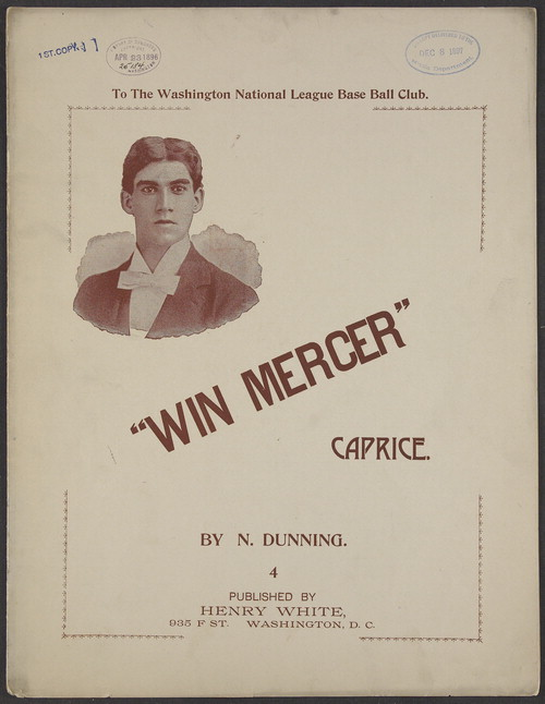 Sheet music to the caprice titled "Win Mercer"